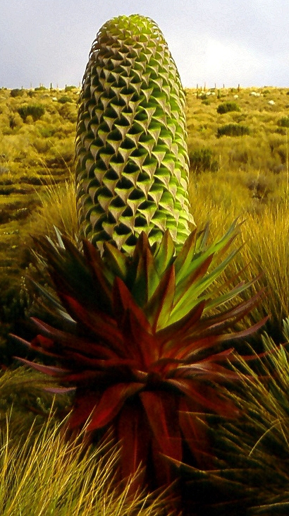 Giant Lobelia, Lobelia gregoriana, found in the Afro-Alpine zone of Mount Kenya.